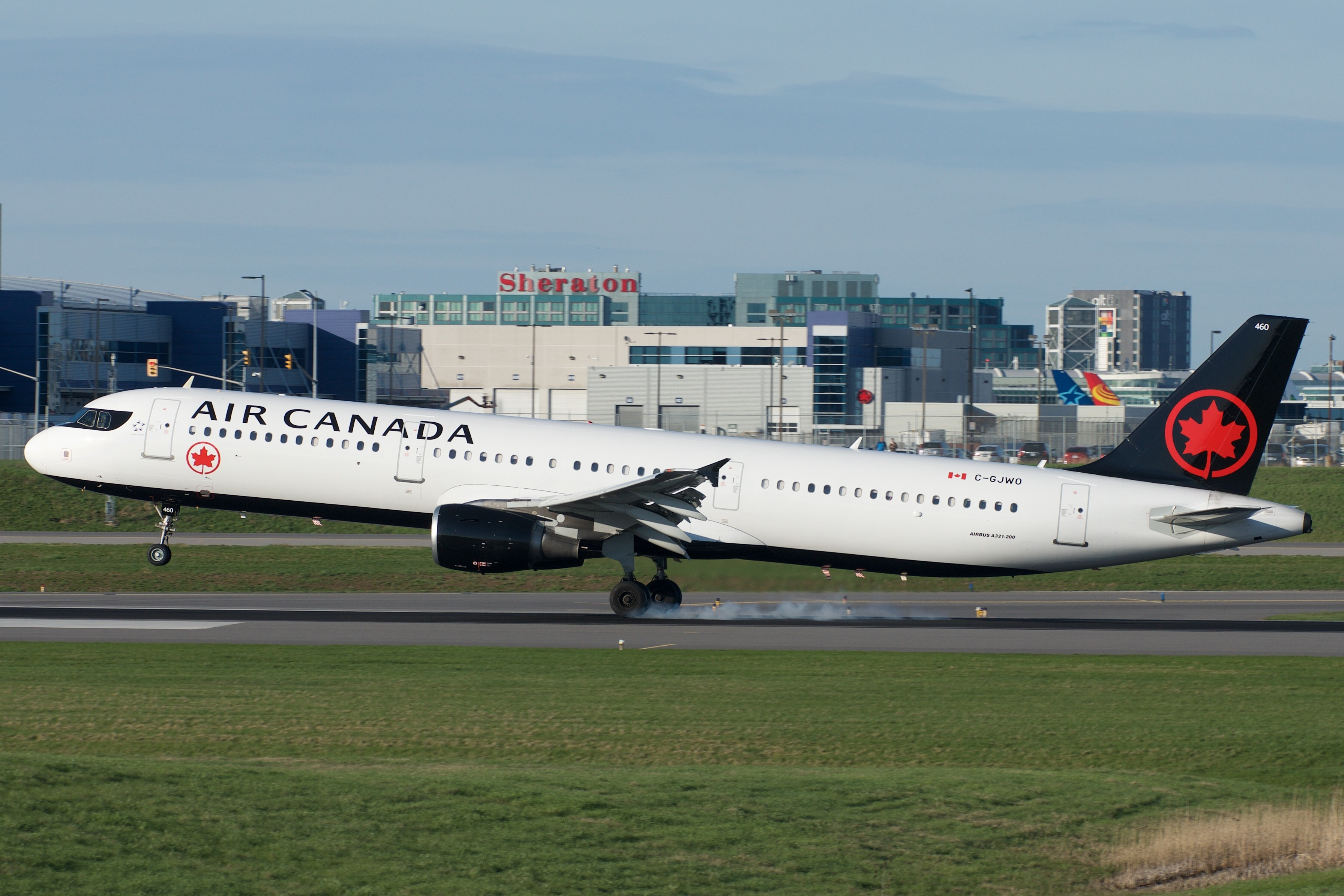 Air Canada Airbus A321 at Toronto Pearson International Airport